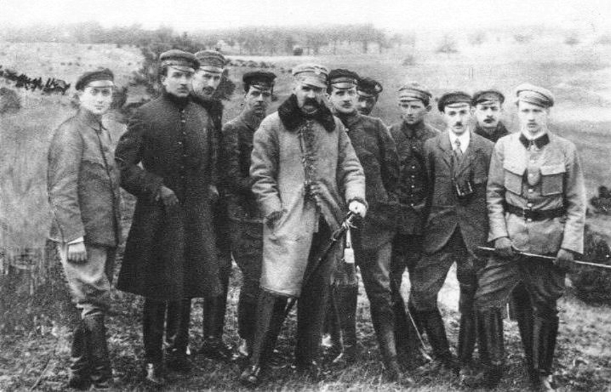 Józef Piłsudski with Supreme Command of Polish Military Organisation in 1917